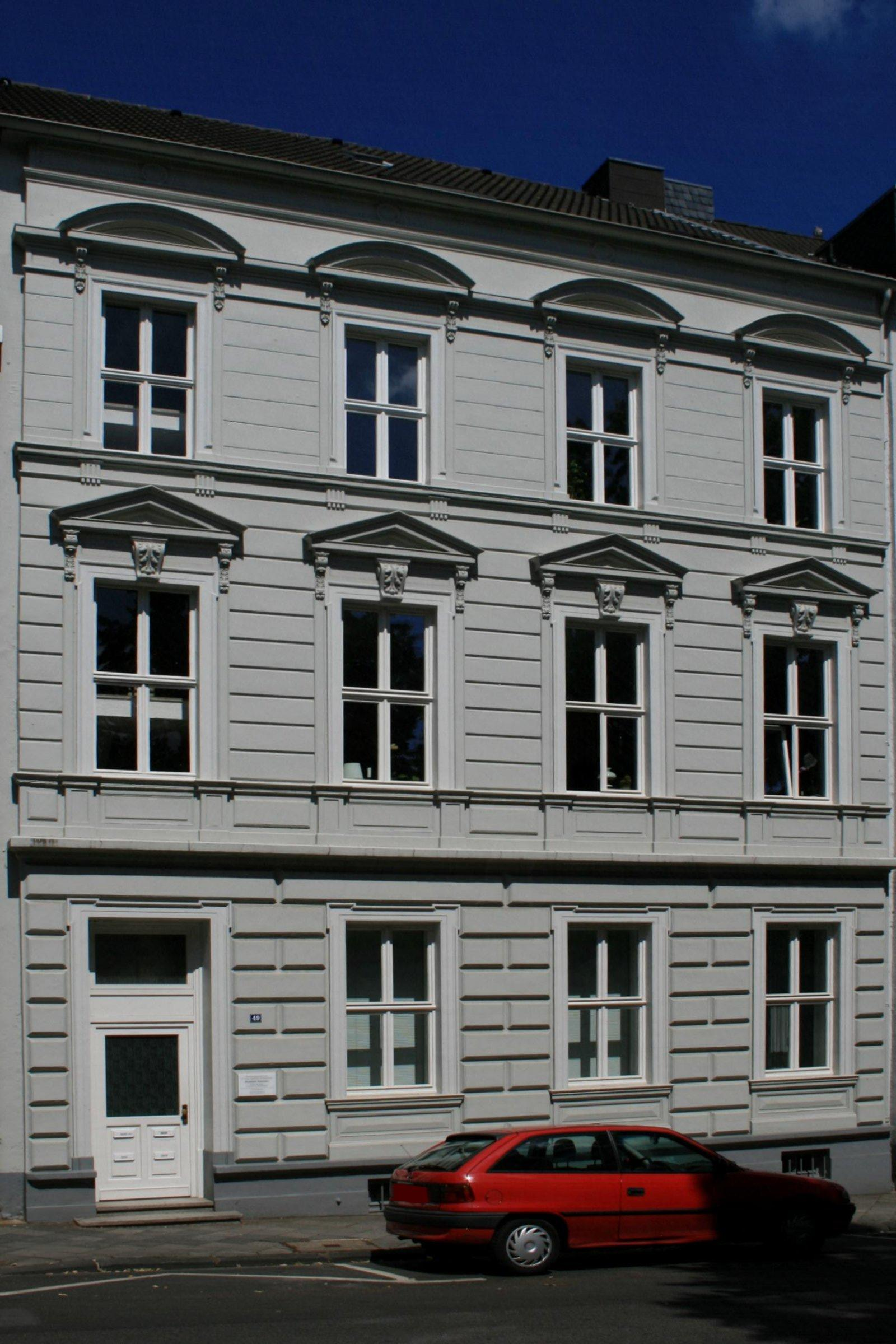 Cultural heritage monument No. K 005 in Mönchengladbach